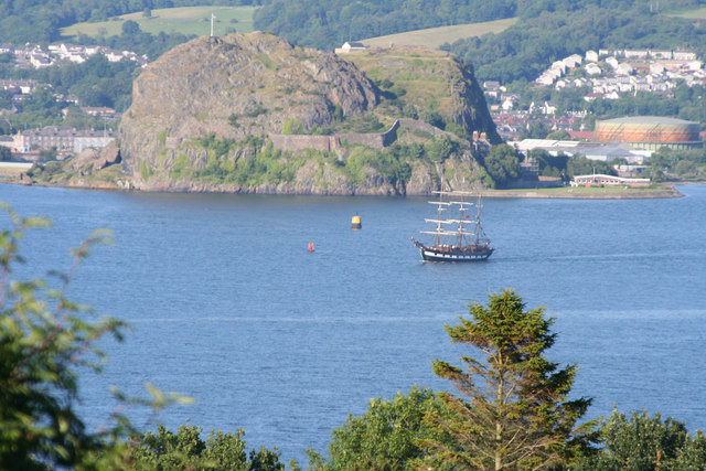 Brig Jeanie Johnston south west of Dumbarton Rock. Old vessel fronts ancient volcanic plug